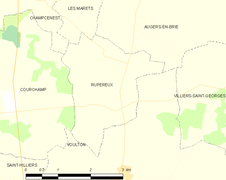 Map of French municipality Rupéreux